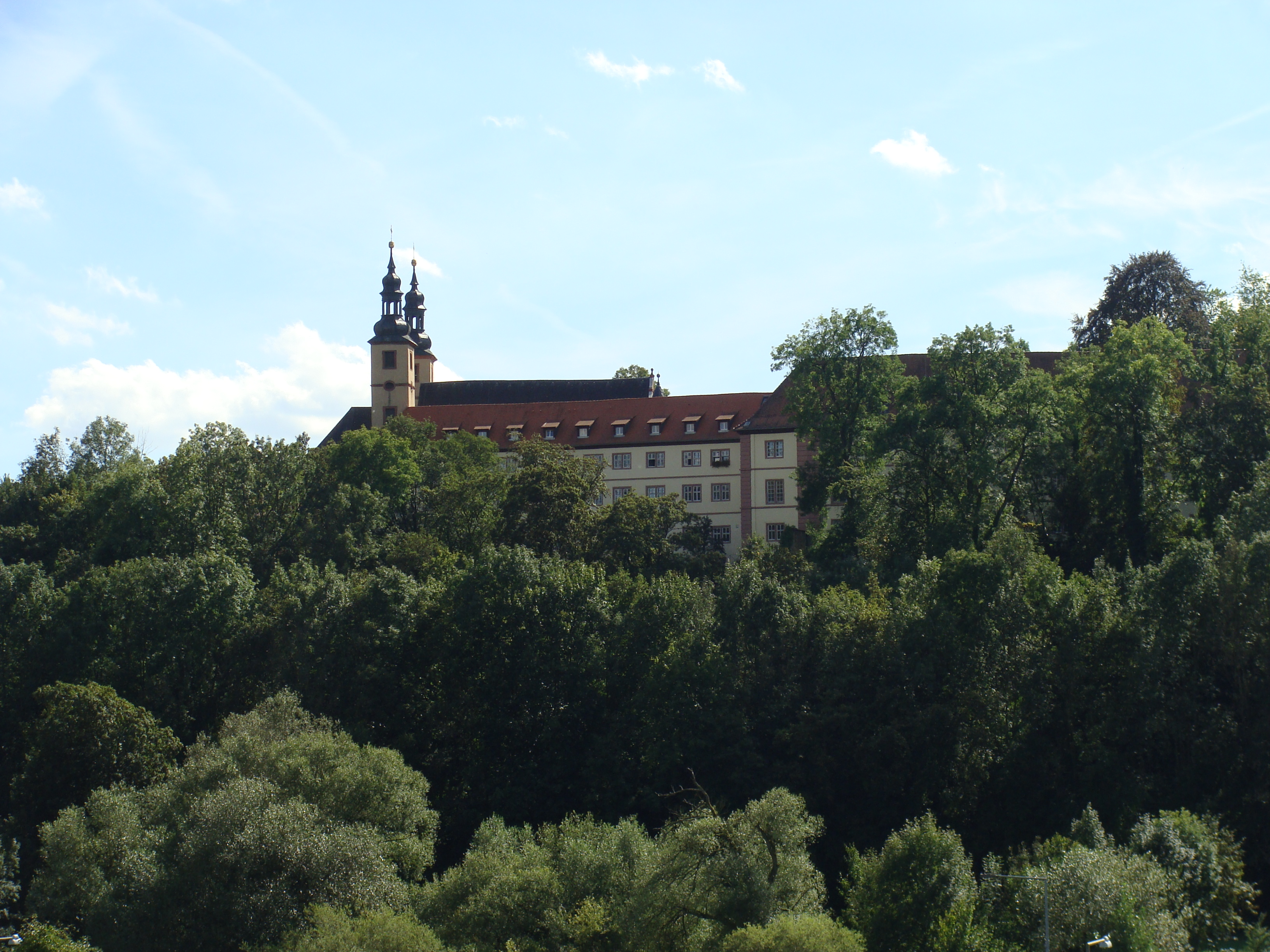 Triefenstein monastery near Lengfurt